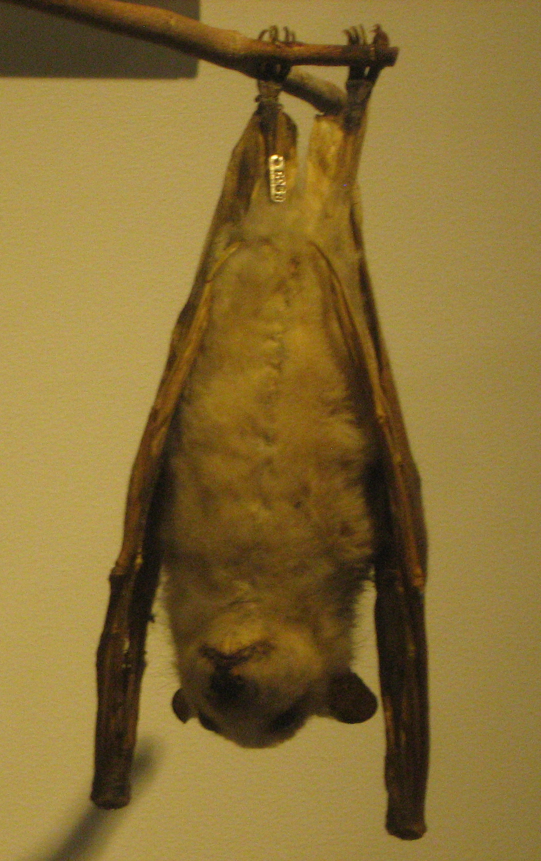 A stuffed Epomophorus labiatus at the Harvard Museum of Natural History.